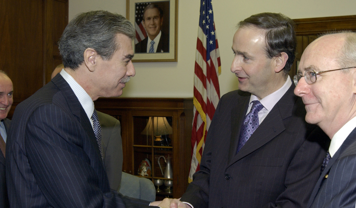 Secretary Gutierrez meets with the Irish Minister for Enterprise Micheál Martin